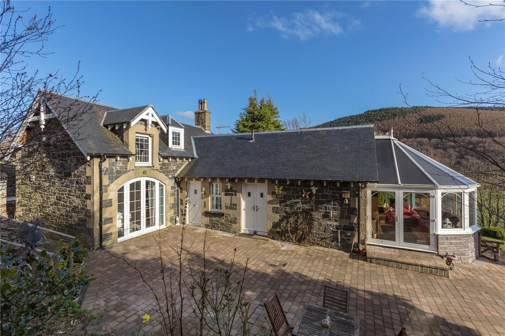 Original coach house of Kirna House in Walkerburn, Scottish Borders.